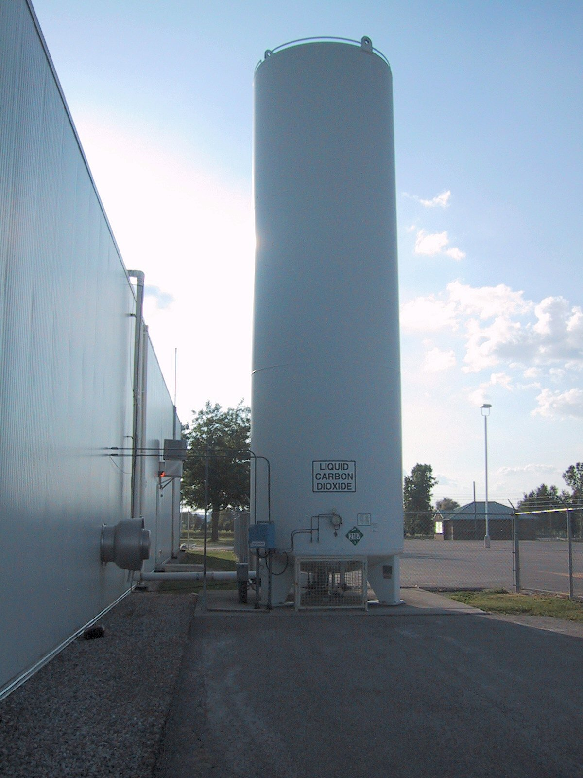 a Pressure Vessel used in industry